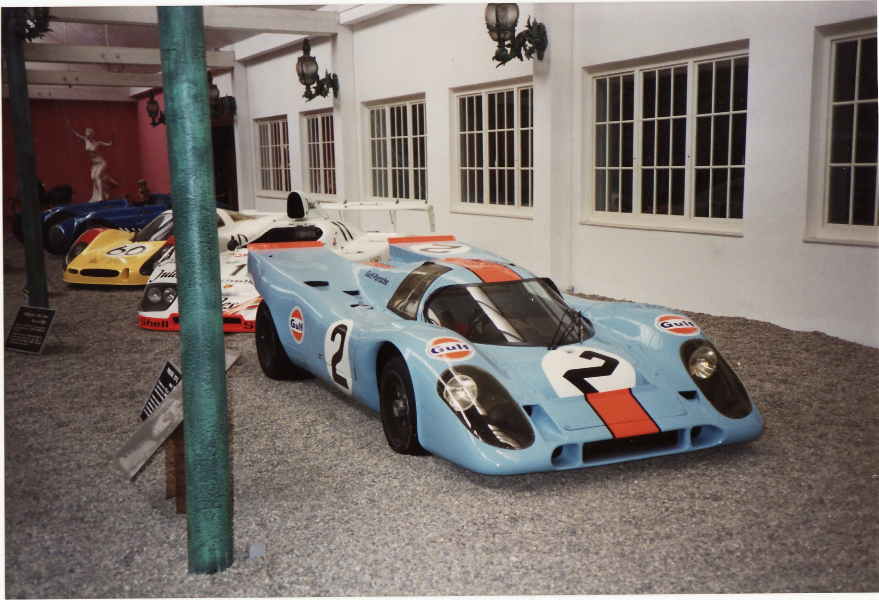 Porsche 917 in Gulf colours, 1970